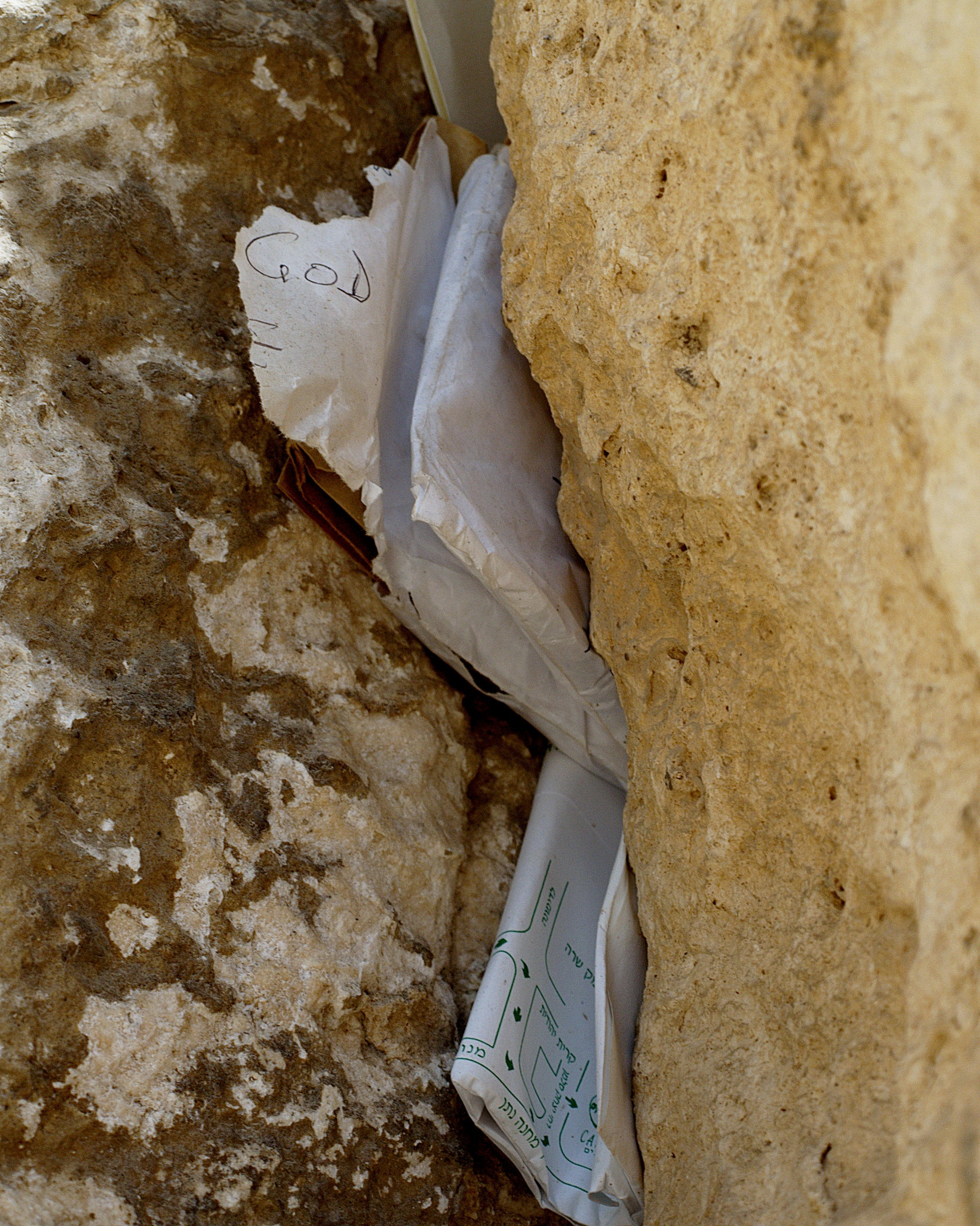 A prayer in the Western Wall.